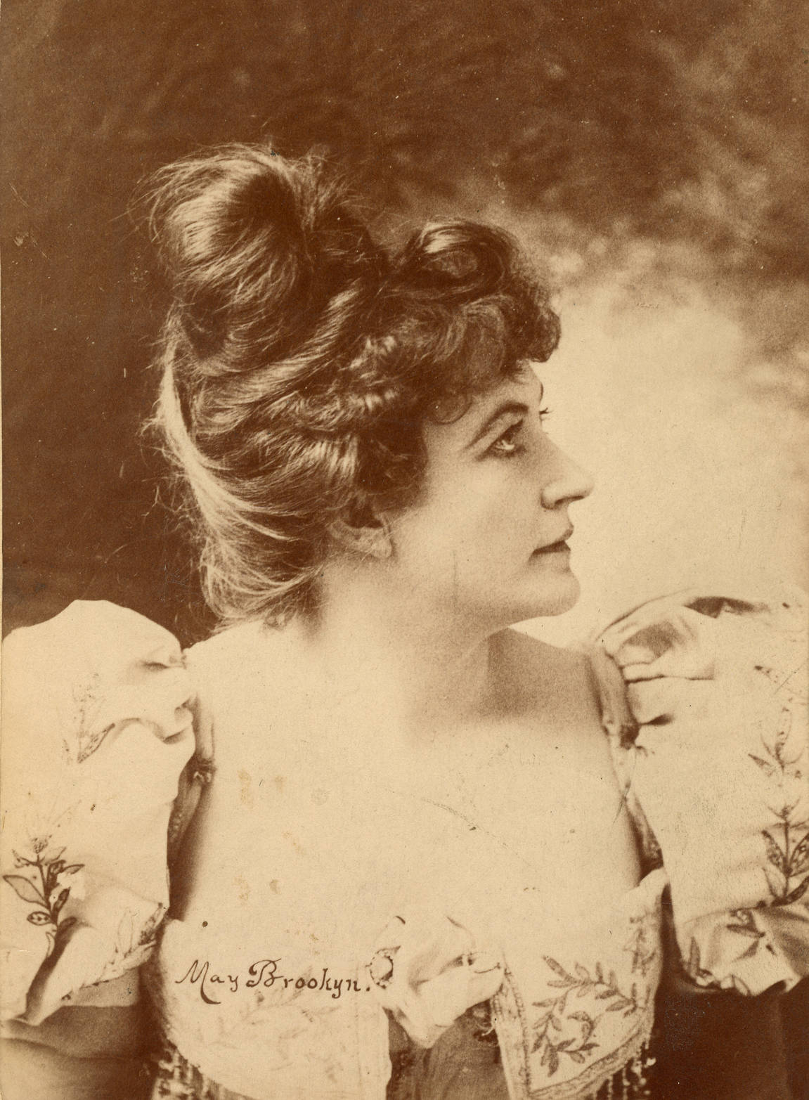 Stage actress May Brookyn. Subjects: actresses